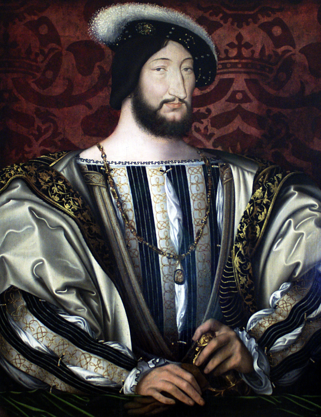 without frame